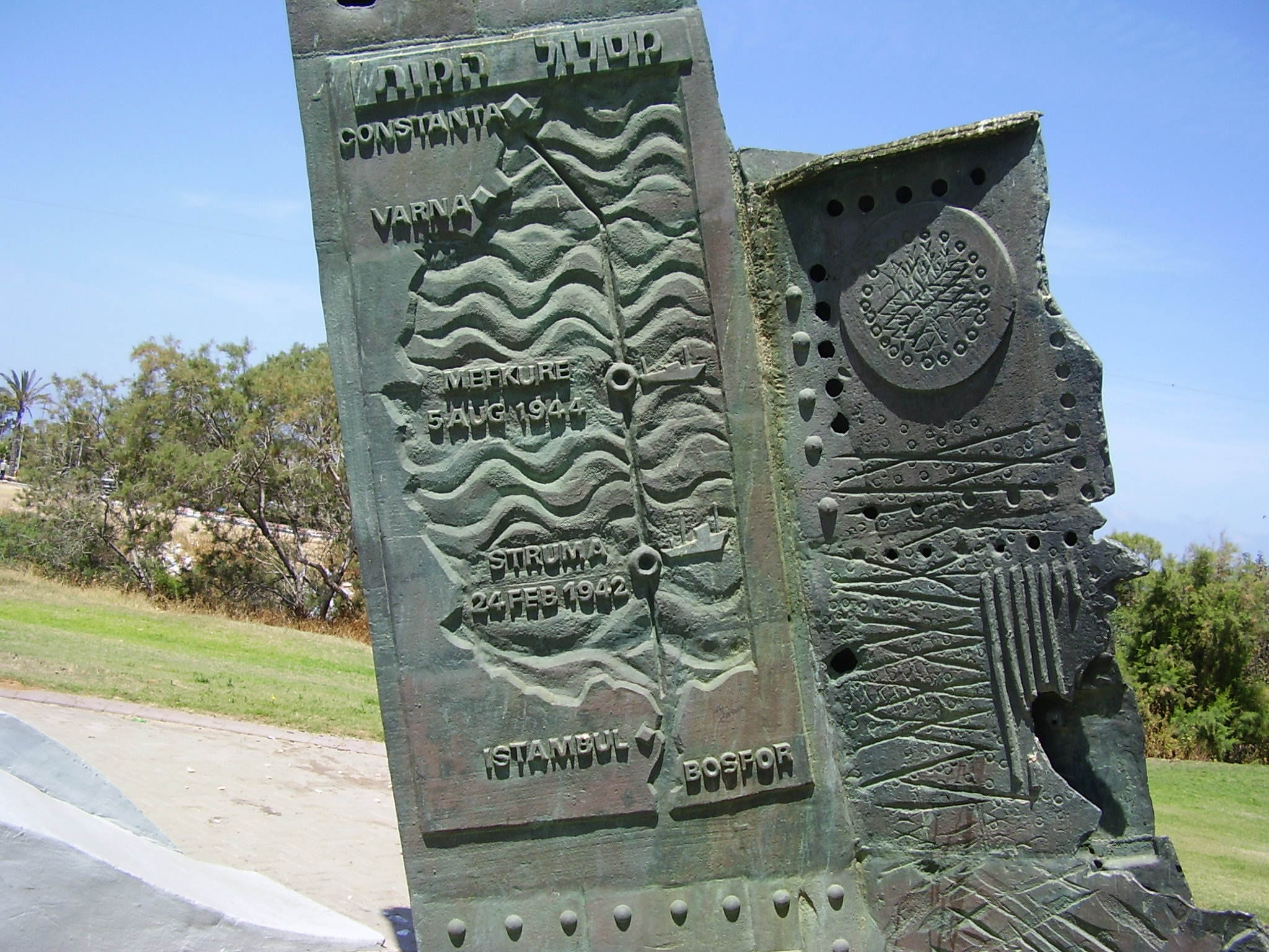 The death voyage of STRUMA and MEFKURE in the monument in Ashdod